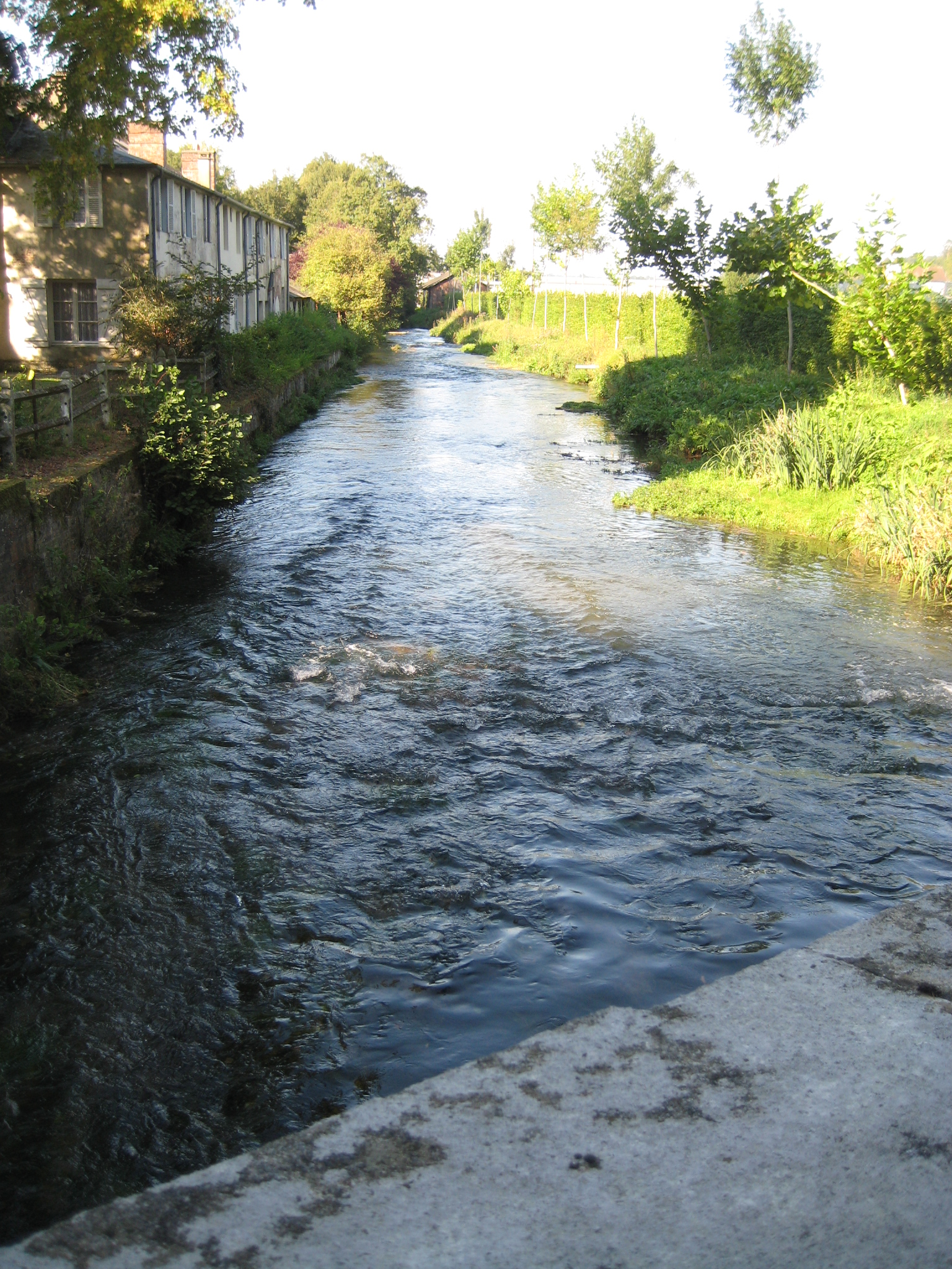 River Touques at Fervaques (Calvados, France)